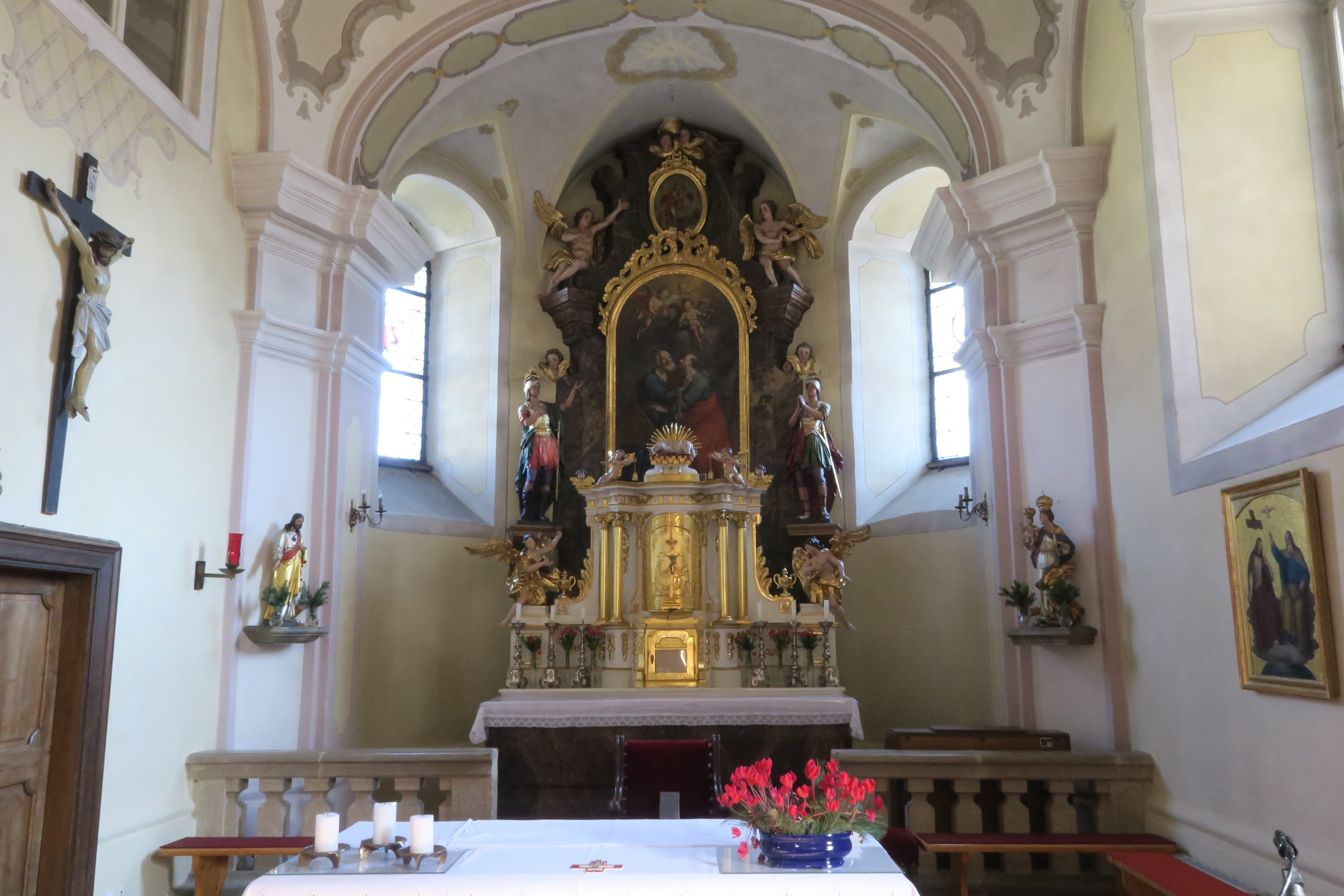 Church Schäffern